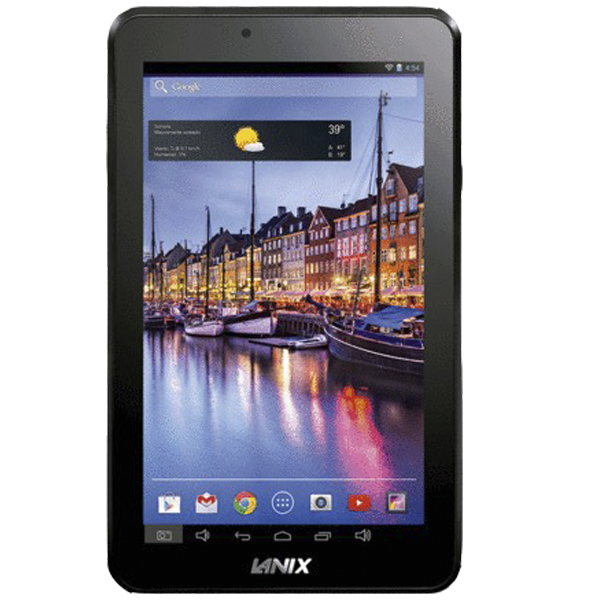 Tableta Ilum Pad i7